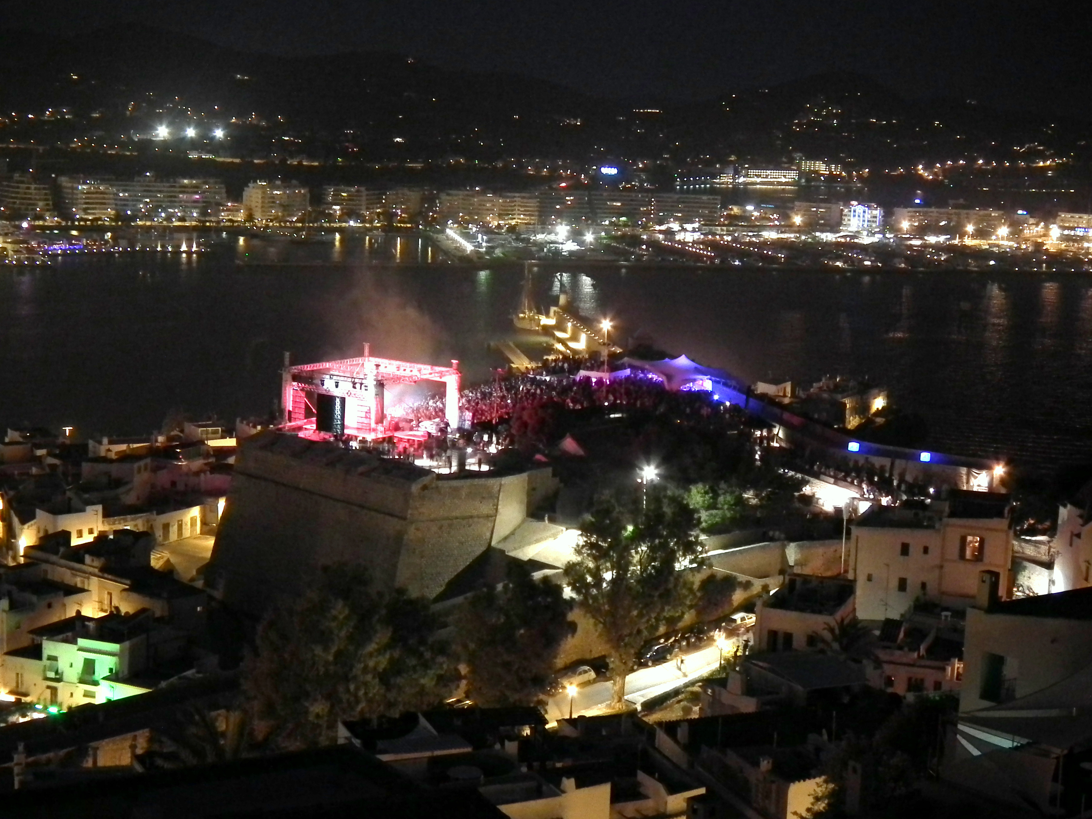 Picture of the 2011 International Music Summit taken from the Cathedral terrace by me (Ibiza Photo).